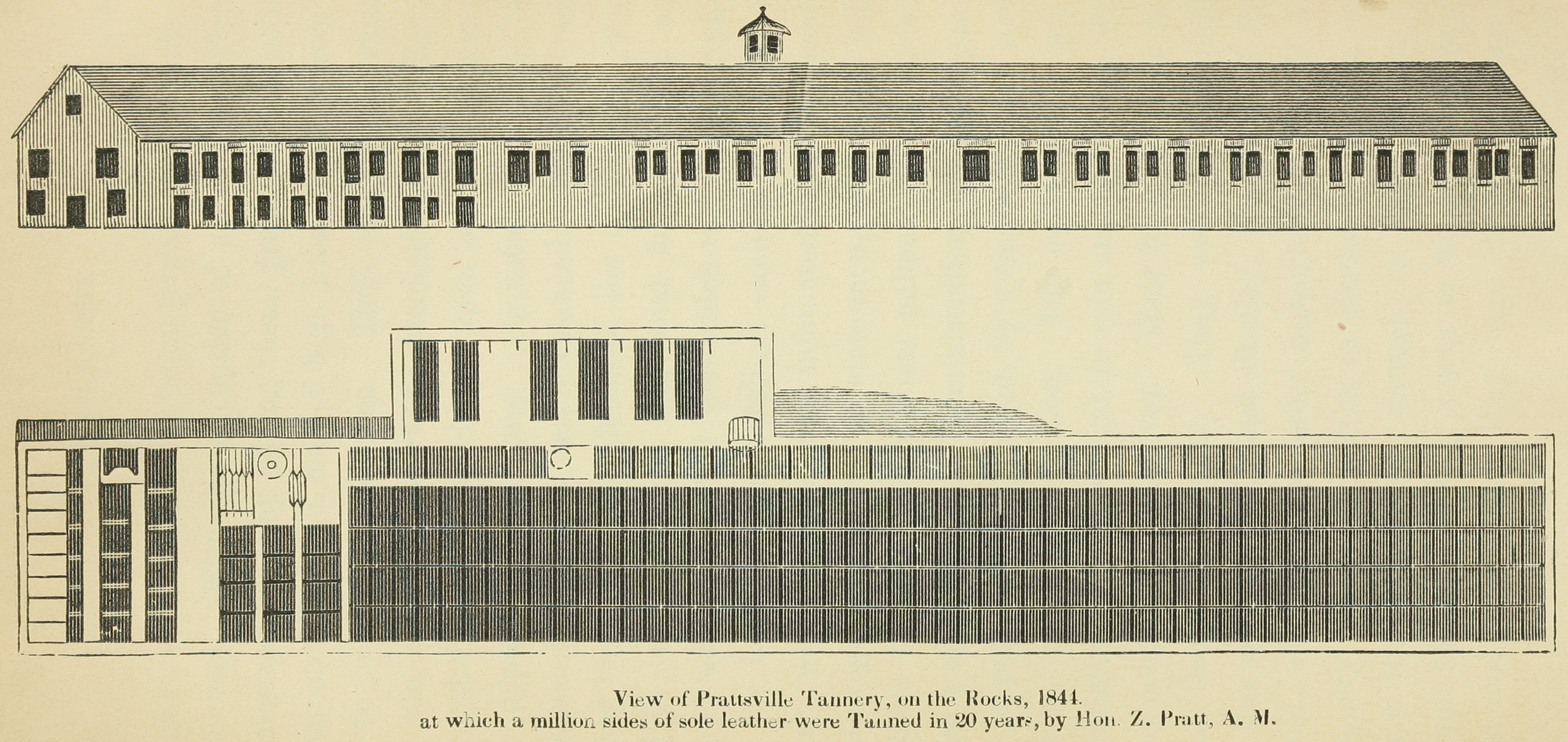 Drawing of Zadock Pratt's tannery in 1844. Text reads: "View of Prattsville Tannery, on the Rocks, 1844. at which a million sides of sole leather were Tanned in 20 years, by Hon Z. Pratt, A.M.